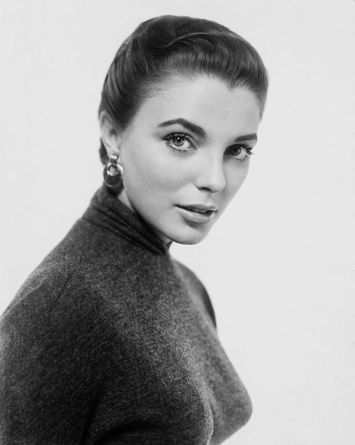 Joan Collins photographed for publicity purposes for The Good Die Young, 1954.